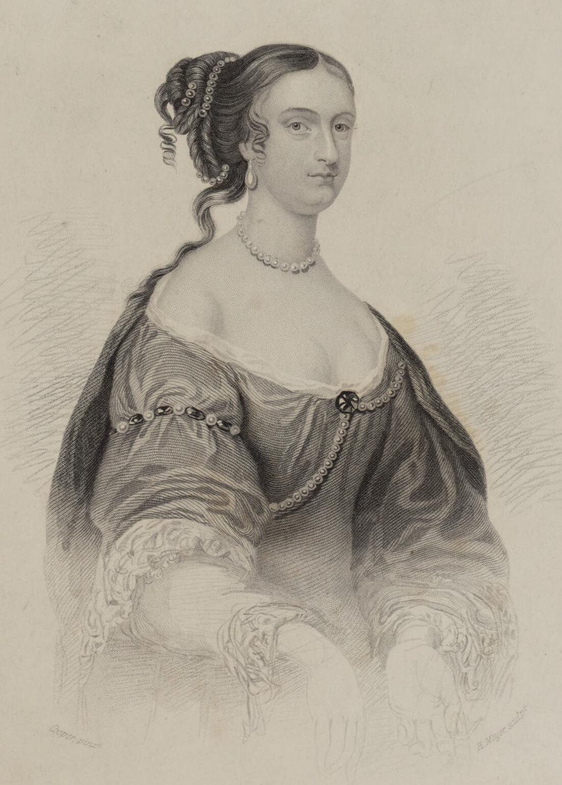 A portrait from the Welsh Portrait Collection at the National Library of Wales. Depicted person: Rachel Russell, Baroness Russell – English noblewoman, heiress, and author